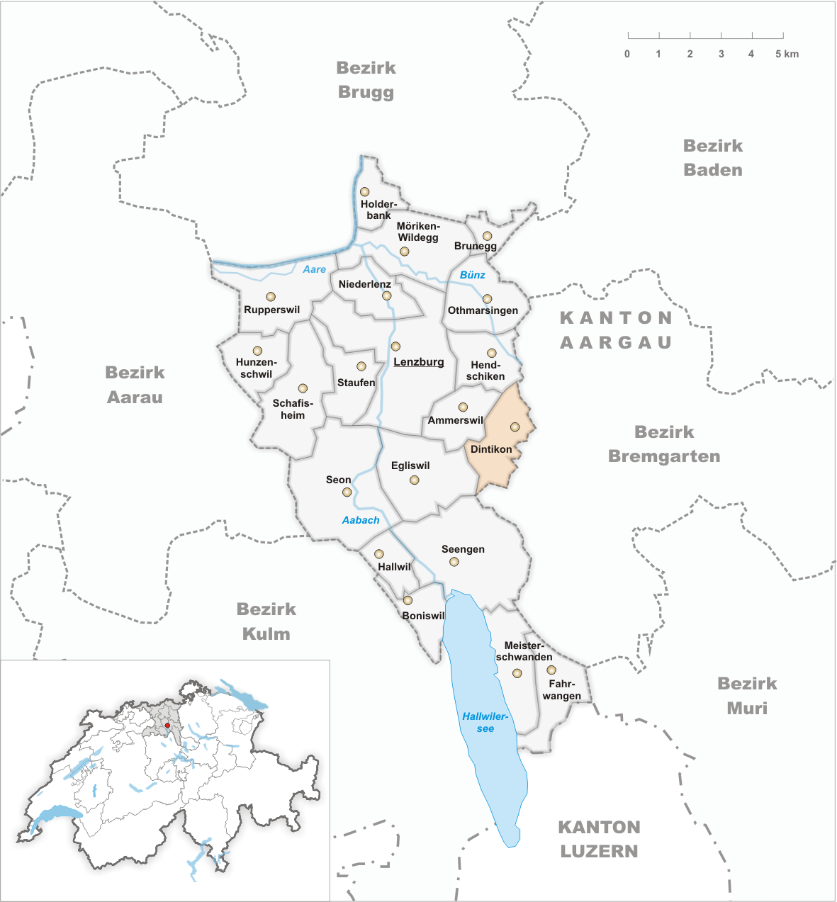 Municipality Dintikon